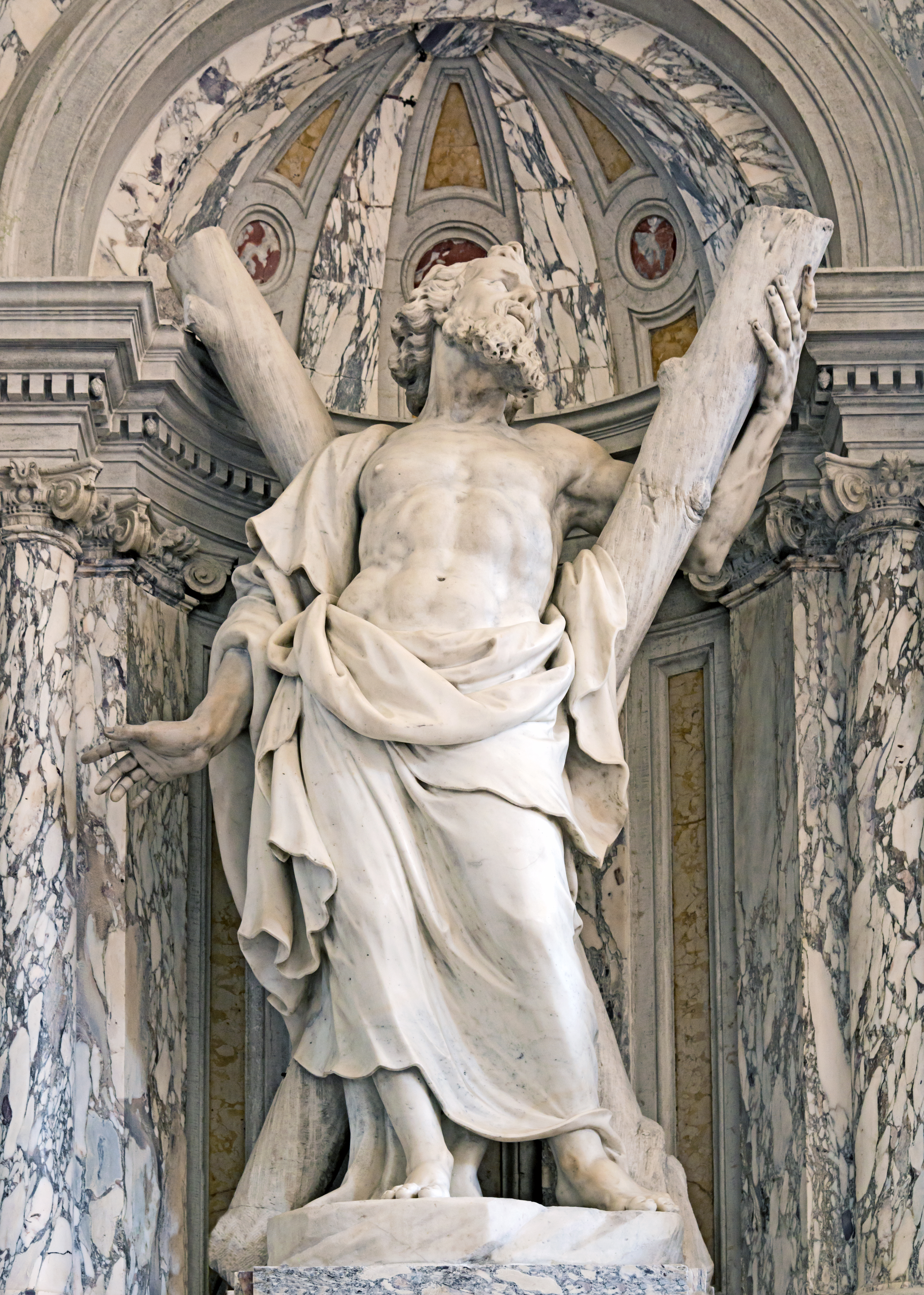 Sant'Andrea della Zirada in Venice. First altar on the left; altar: marble statue of St. Andrew (eighteenth century).